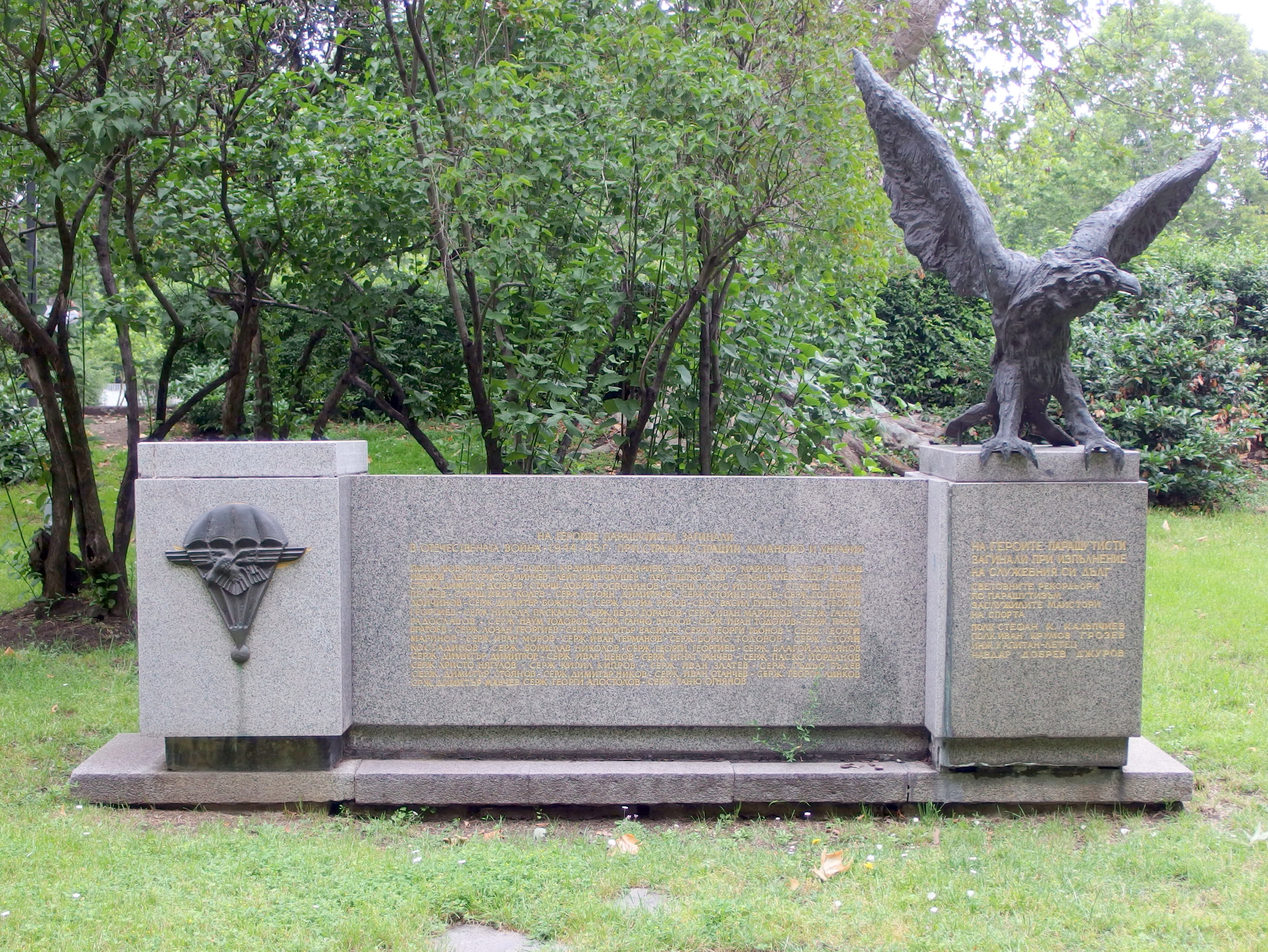 2014-06-16 in Sofia.